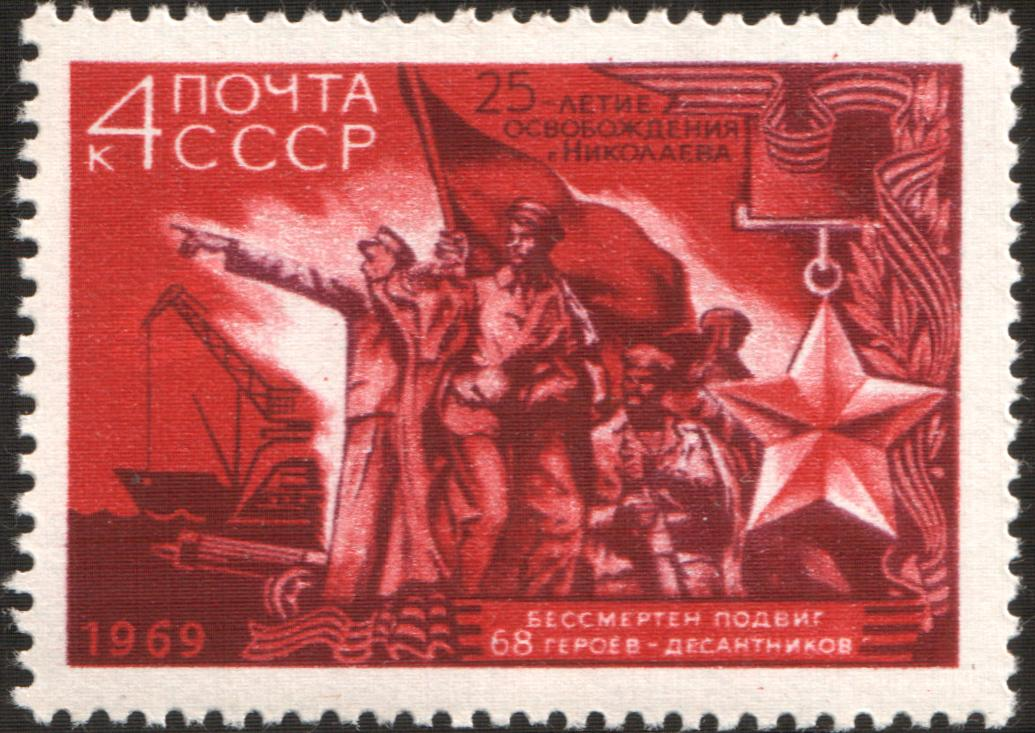 USSR stampː Liberation Monument to 68 Heroes. Seriesː 25th Anniversary of the Liberation of Mykolaiv from the Germans